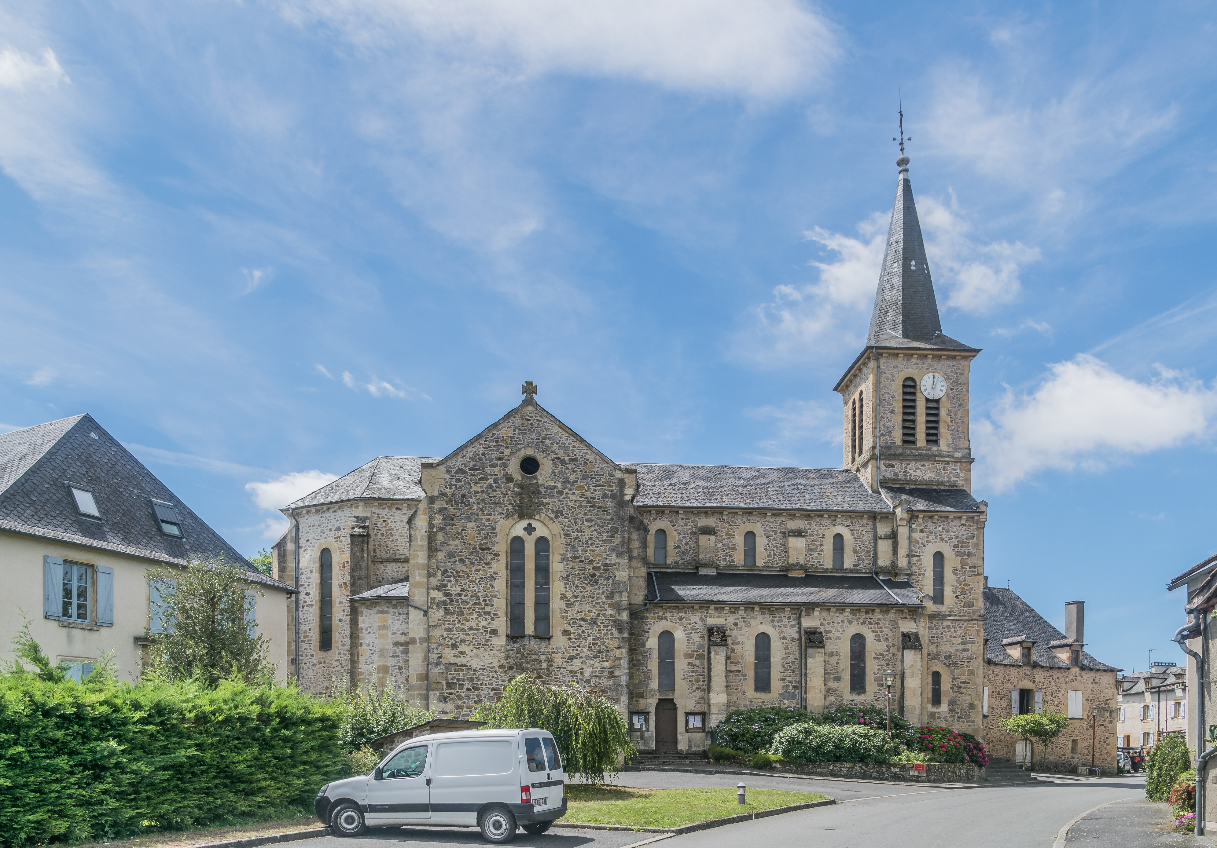 Church in Galgan, Aveyron, France